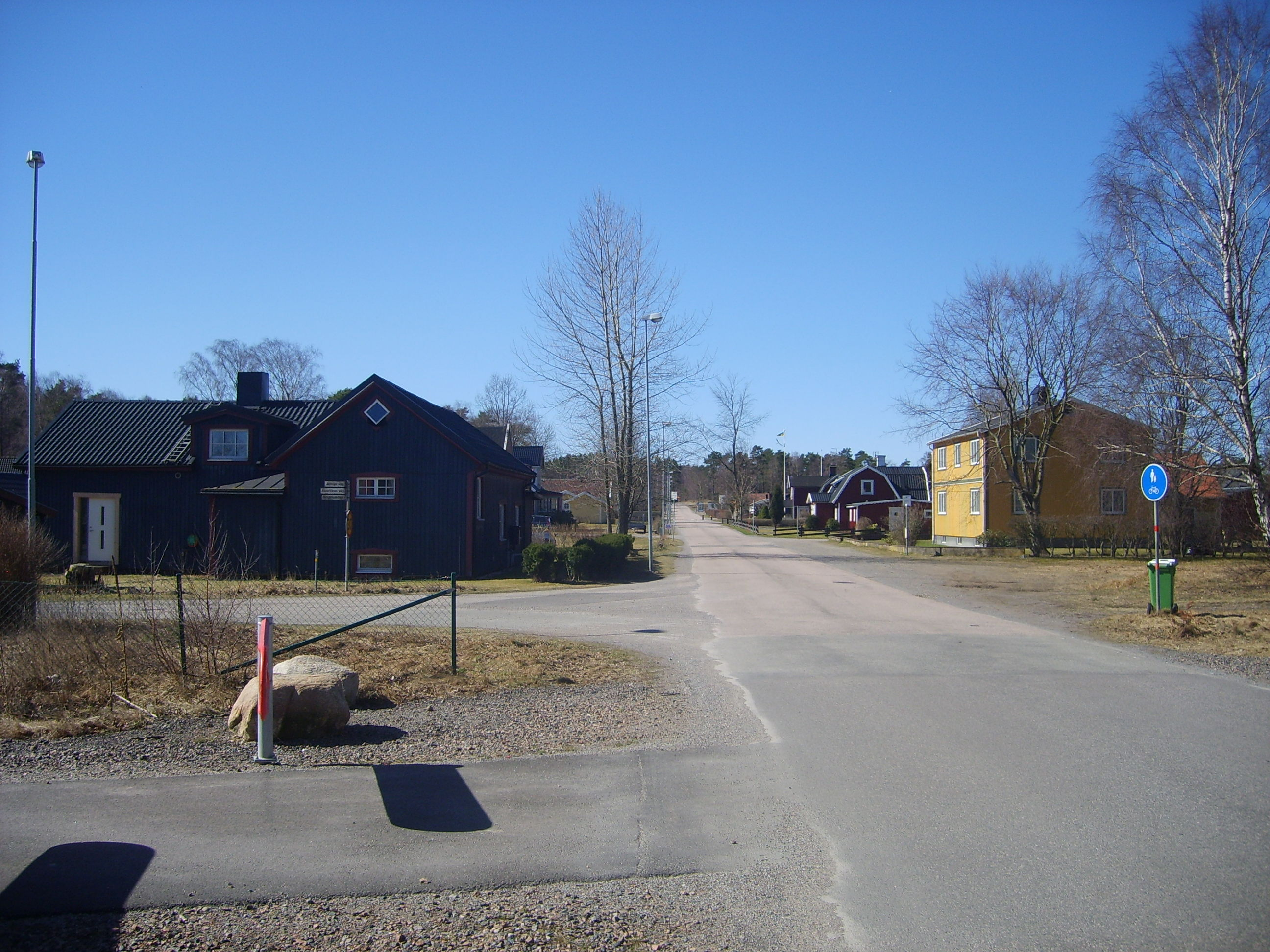 View of Skrea Stationsväg (Station Street) in Skrea, Sweden. The narrow walking & cycle path at the bottom left is the course of the former West Coast Line (Wästkustbanan) which was diverted outside of the city in June 2008.